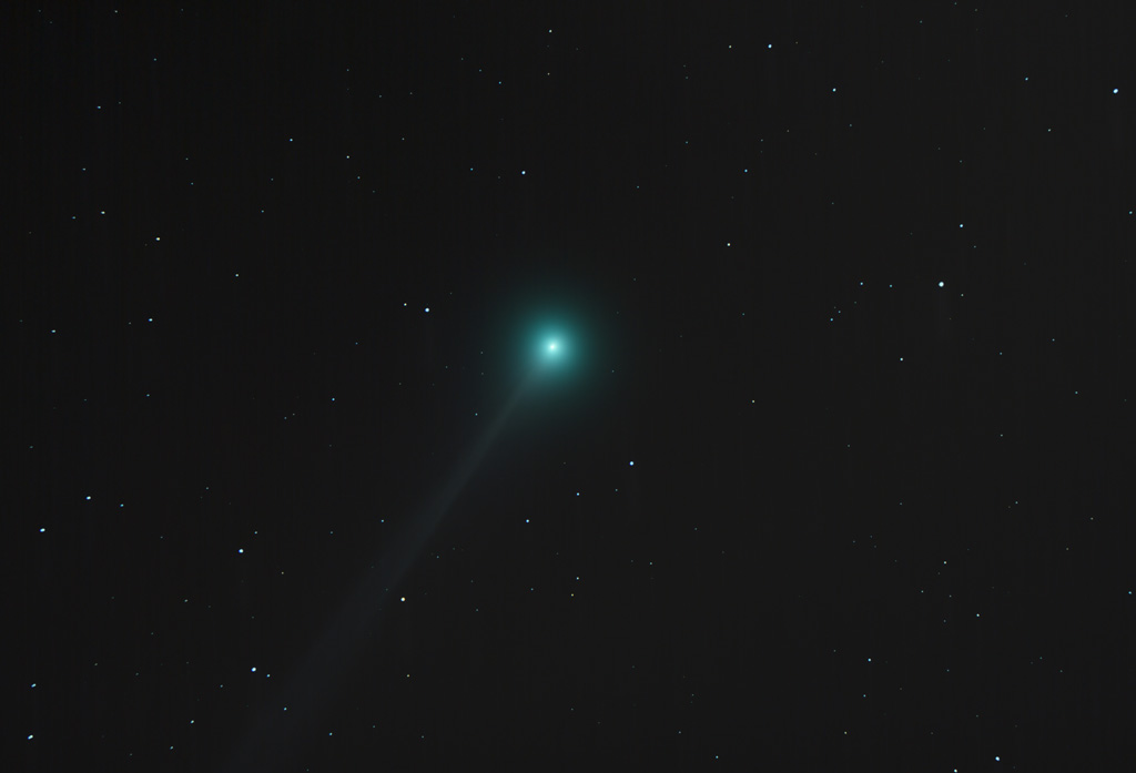 Comet C/2012 F6 (Lemmon) - used a Canon 550D on a 10-inch f/2.8 Newtonian.